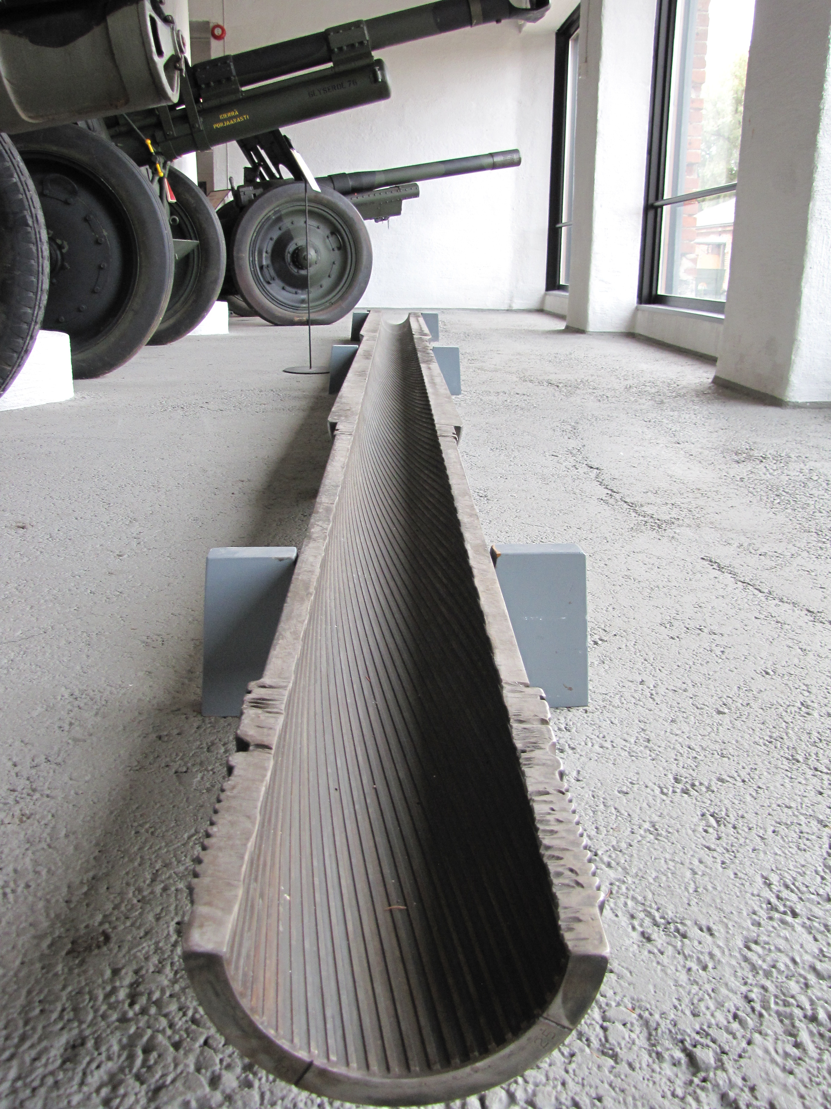 Sectioned barrel of Finnish 155 K 83 gun in Hämeenlinna artillery museum. Length 599 cm (L 38), manufactured by Tampella. 2500 shots have been fired from this barrel.